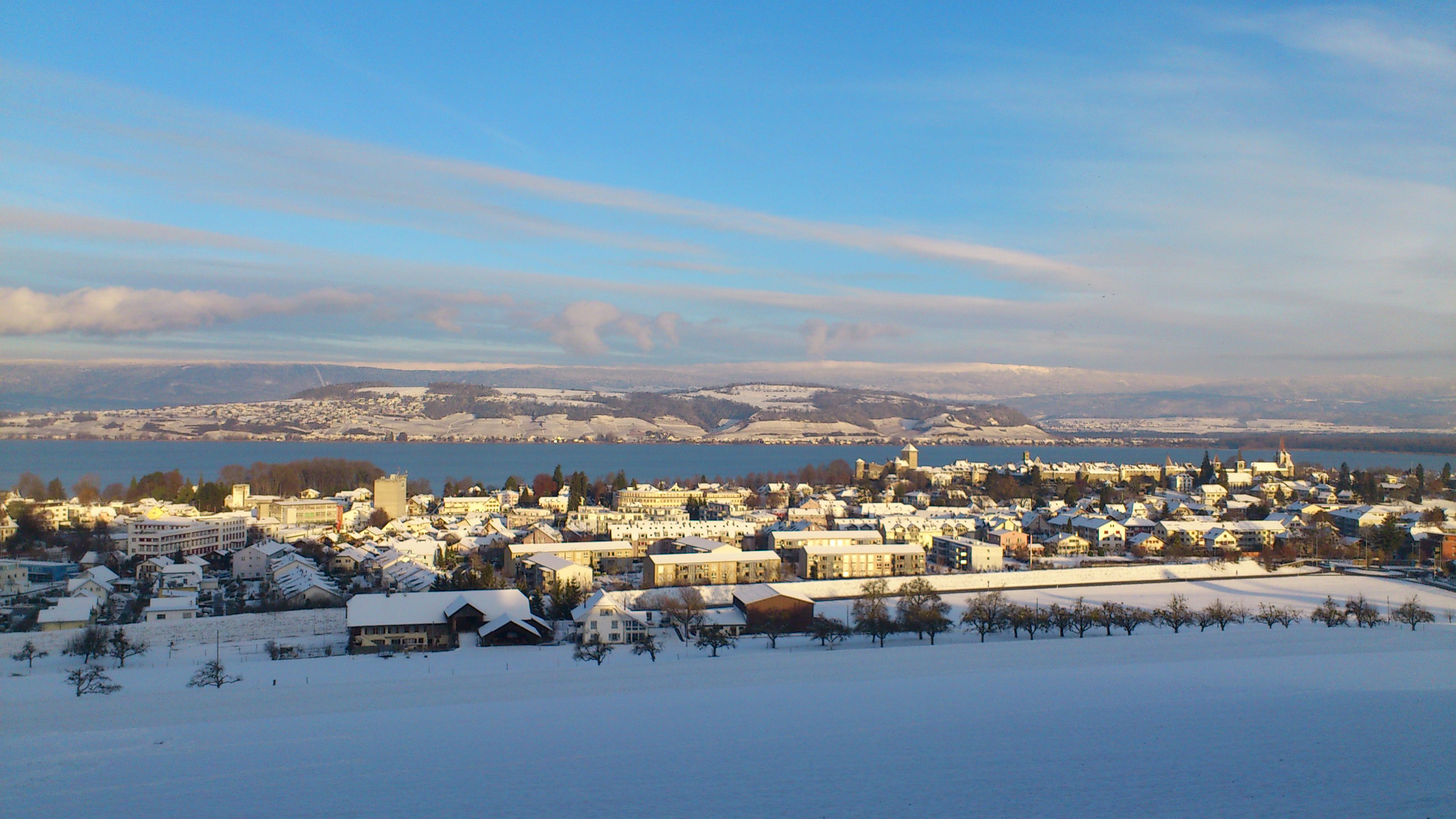 Our amazing bilingual region at a glance! Vue du Lac de Morat et du Mont Vully, depuis le Bois Domingue (Lake number 1013L)